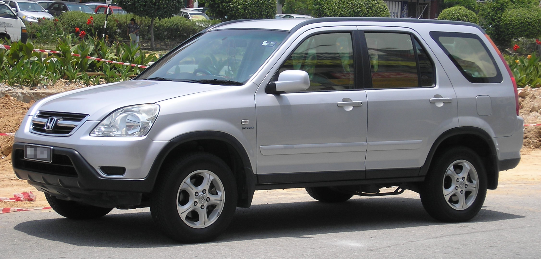 Front-side shot of a second generation Honda CR-V, in Serdang, Selangor, Malaysia.